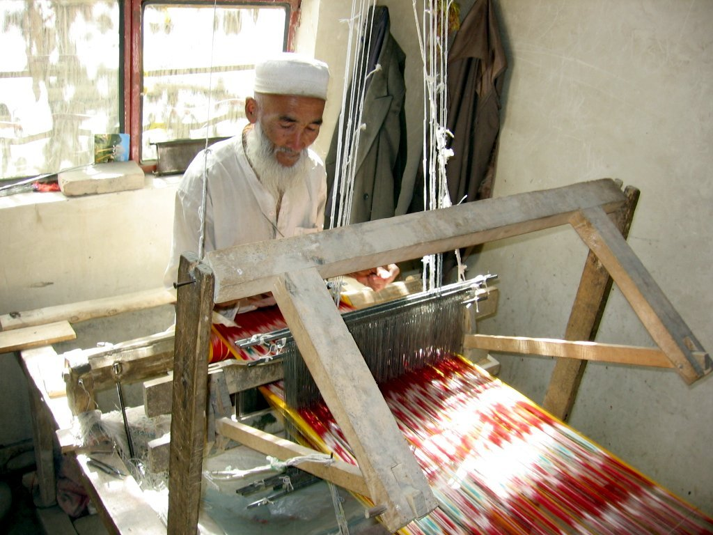 Khotan (Hotan / Hetian) is an oasis city in the Xinjiang Uygur Autonomous Region of the People's Republic of China. Atlas silk factory.